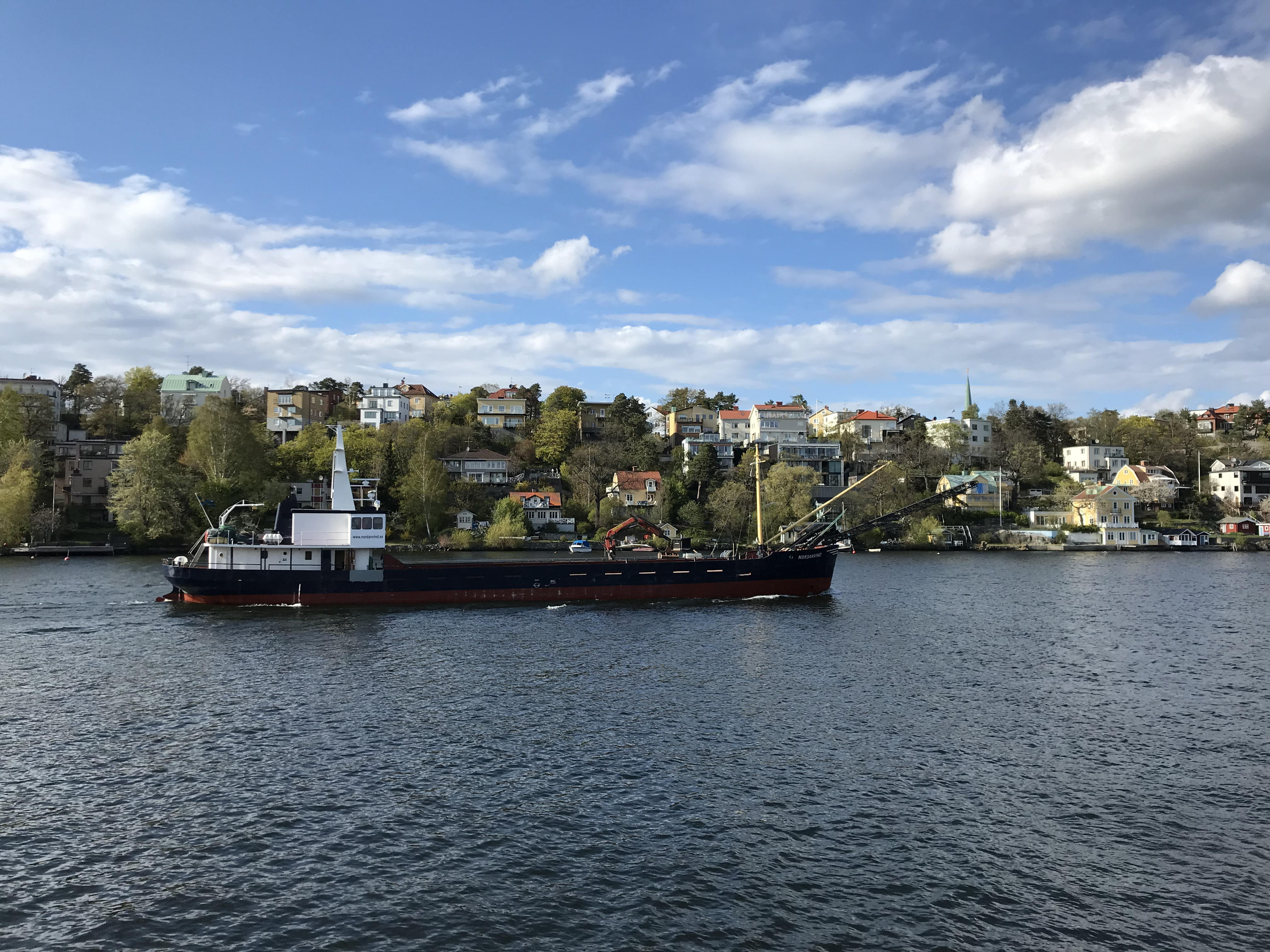 M/S Nordanvind, May 8, 2019